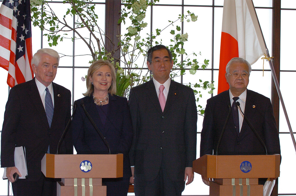 Tom J. Donohue, President and CEO of the United States Chamber of Commerce, Hillary Rodham Clinton, Secretary of State, Takeaki Matsumoto, Minister for Foreign Affairs, and Hiromasa Yonekura, Chairman of the Nippon Keidanren, addressed the press at the Iikura Guest House in Minato Ward, Tōkyō Metropolis on April 17, 2011.